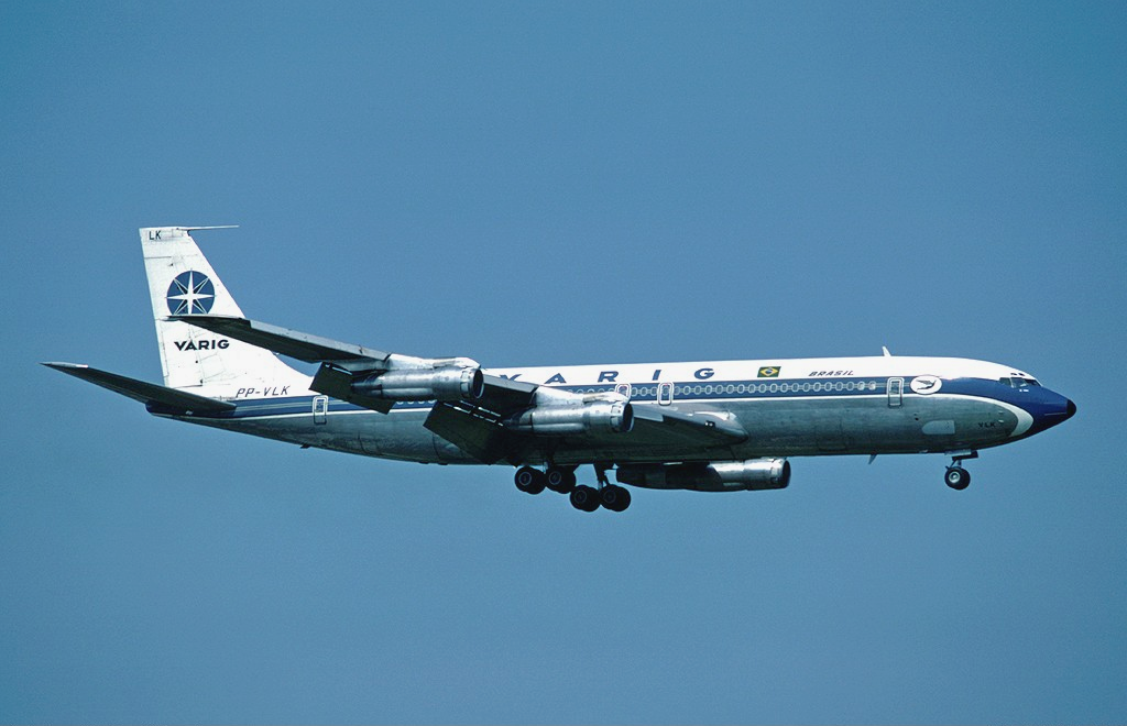 A Varig Boeing 707-324C at Zürich Airport (ZRH / LSZH)